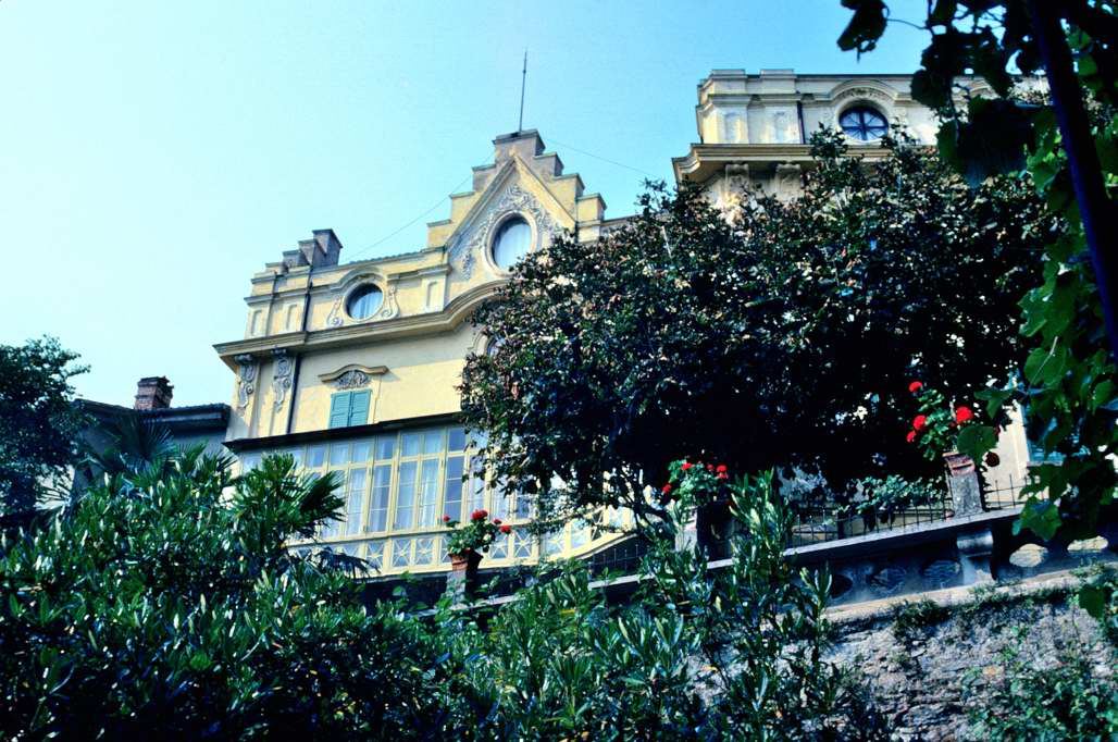 Casa Camuzzi, Montagnola (Collina d'Oro), Switzerland